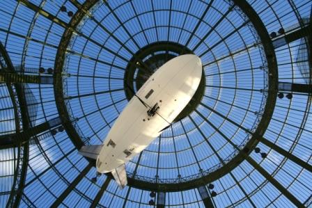 zeppelin